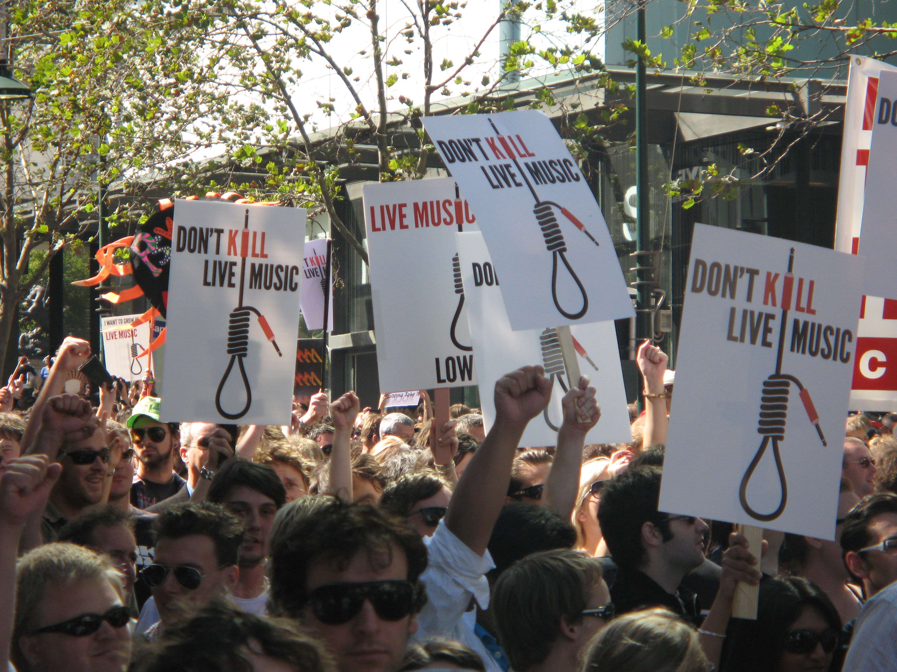 SLAM posters at the SLAM rally heading south down Swanston Street, Melbourne, Australia.